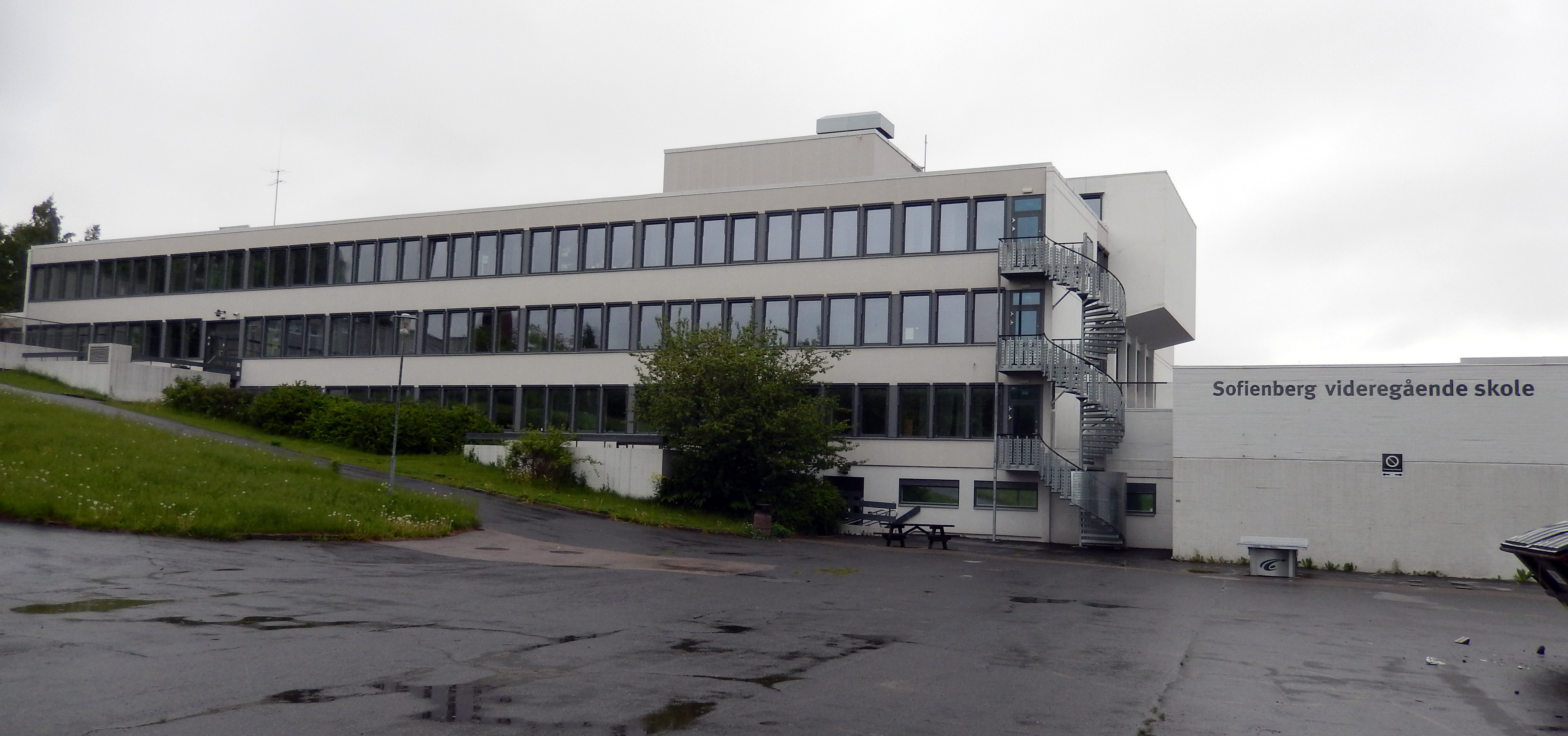 Sofienberg Upper Secondary School at Bredtvet